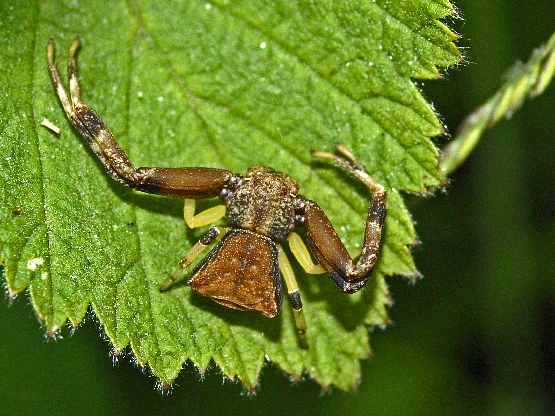 Female of Pistius truncatus. Voltaggio, Alessandria, Italy